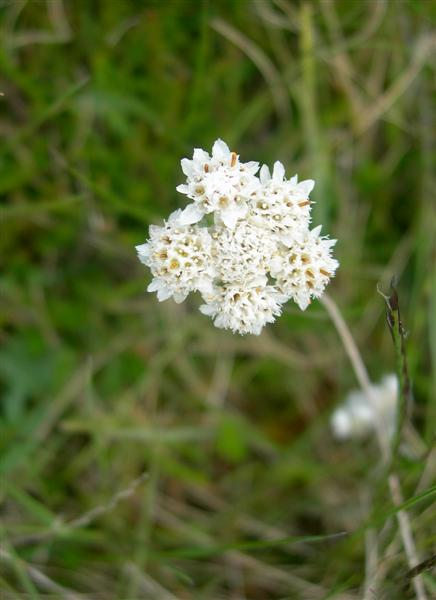 Mountain Everlasting Flower Head Flower heads of the tiny Mountain Everlasting (Antennaria dioica) growing in a grassy area along the western edge of Finnart's Hill.